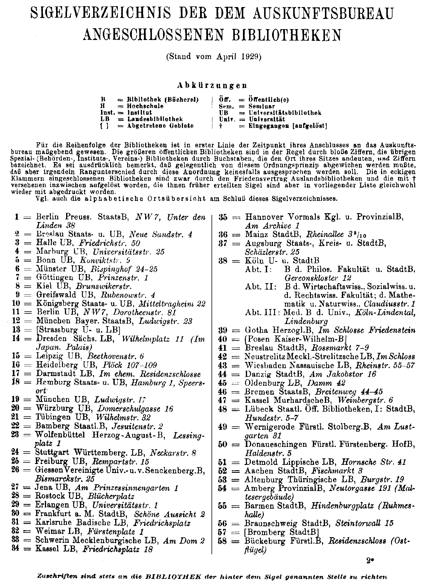 First German Sigelverzeichnis from 1929 (see also image:Sigelverzeichnis1914.png).